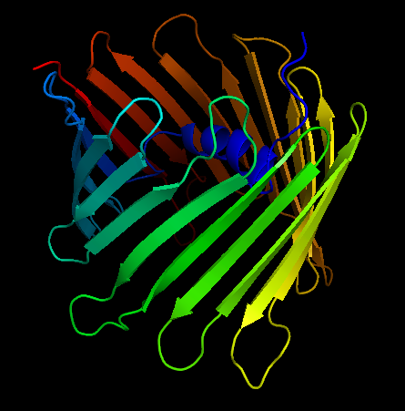 Crystal Structure of the Human Voltage-Dependent Anion Channel. Note the beta barrel formed by antiparallel beta sheets